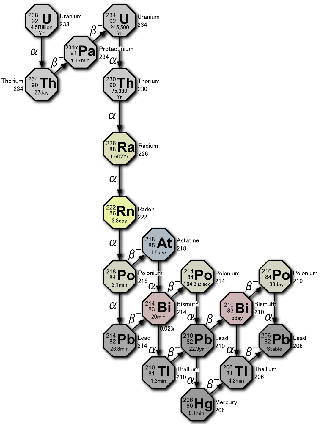 Decay chain 4n+2, Uranium series